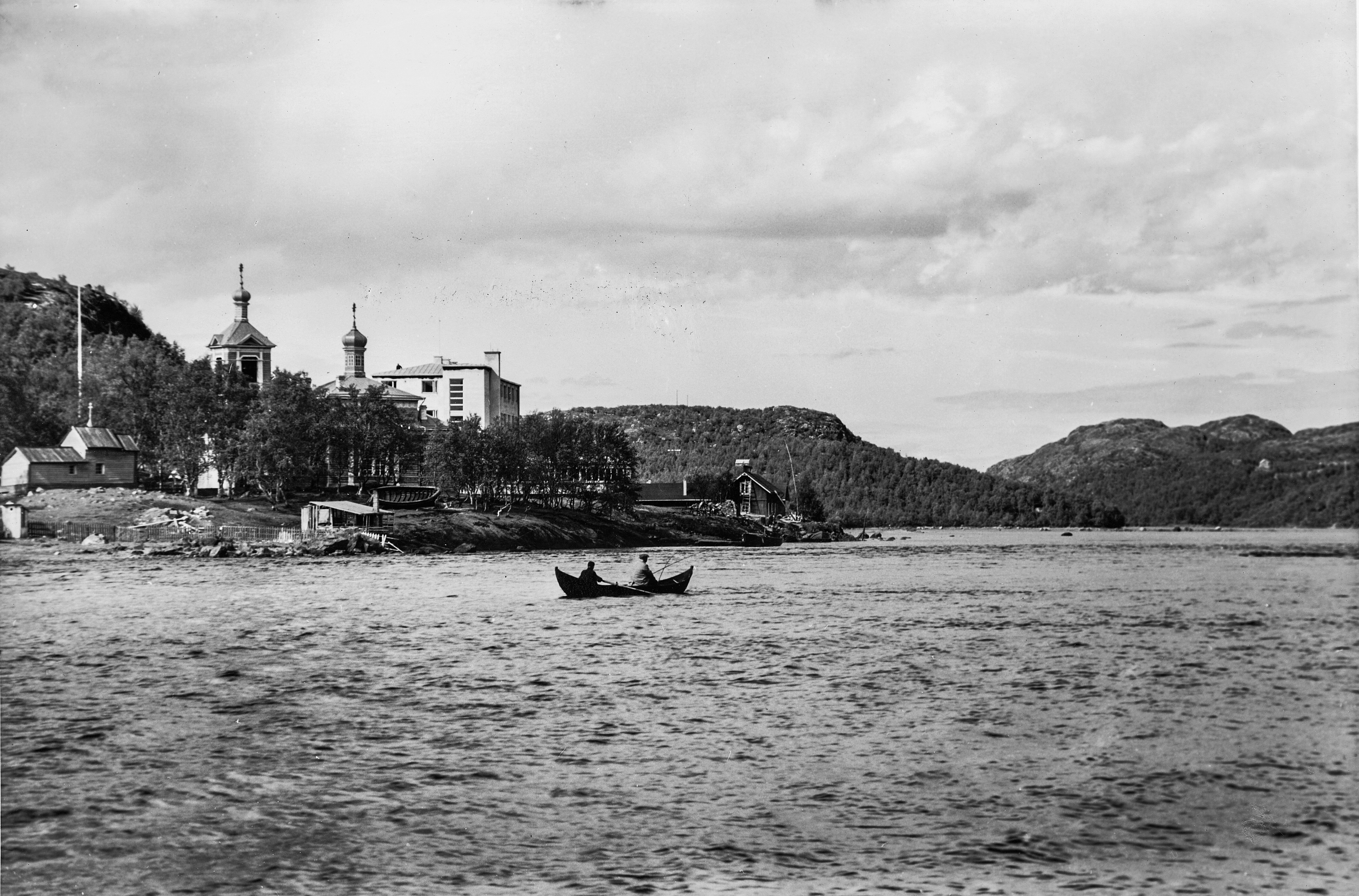 Kolttaköngäs, kirkko ja hotelli joelta päin. Kolttaköngäs, The Church and Hotel from the river. Petsamo 1930-luku /1930's Hopeagelatiinivedos / silvergelatinprint The Finnish Museum of Photography / Suomen valokuvataiteen museo Contact / Ota yhteyttä